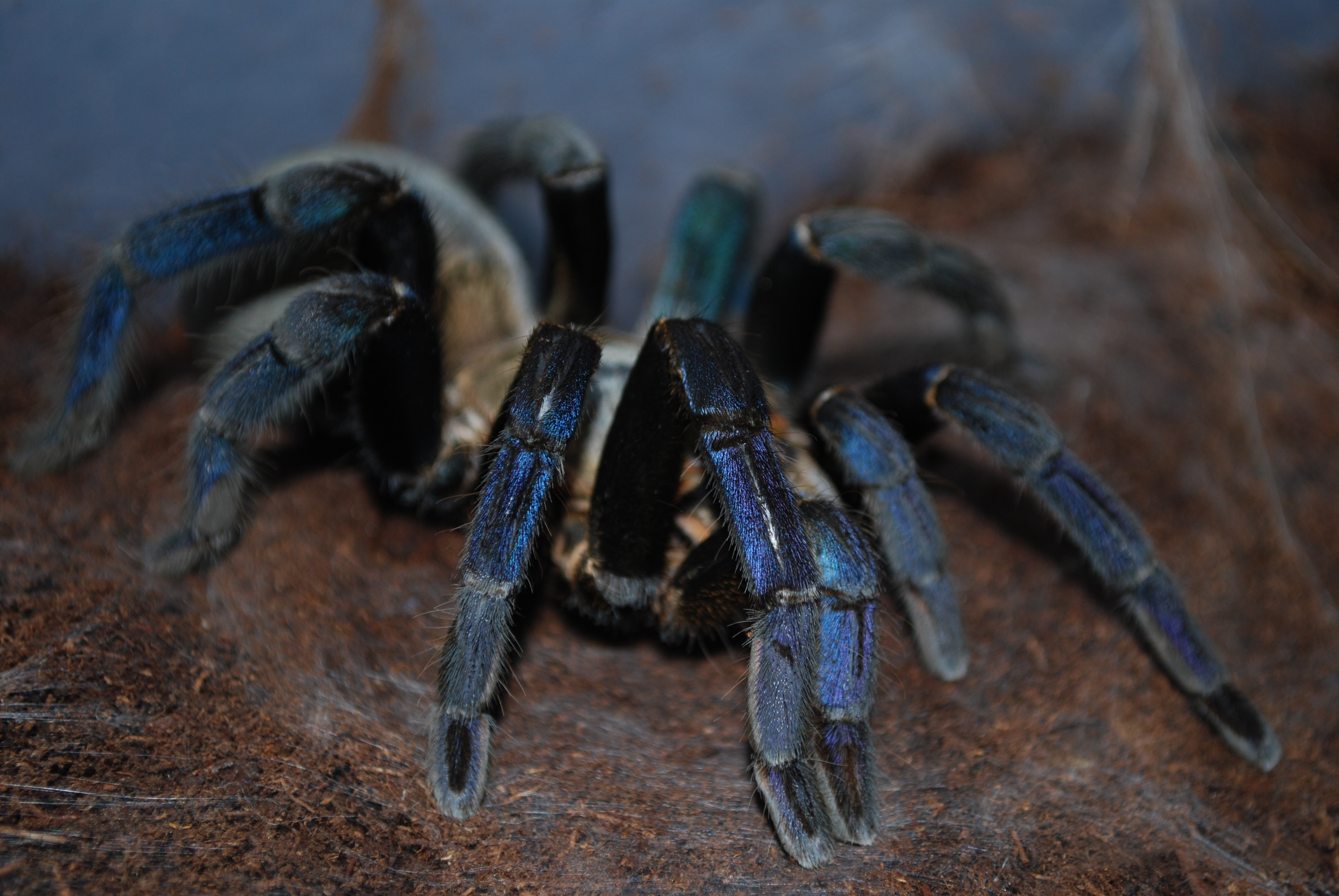 A large female Haplopelma lividum